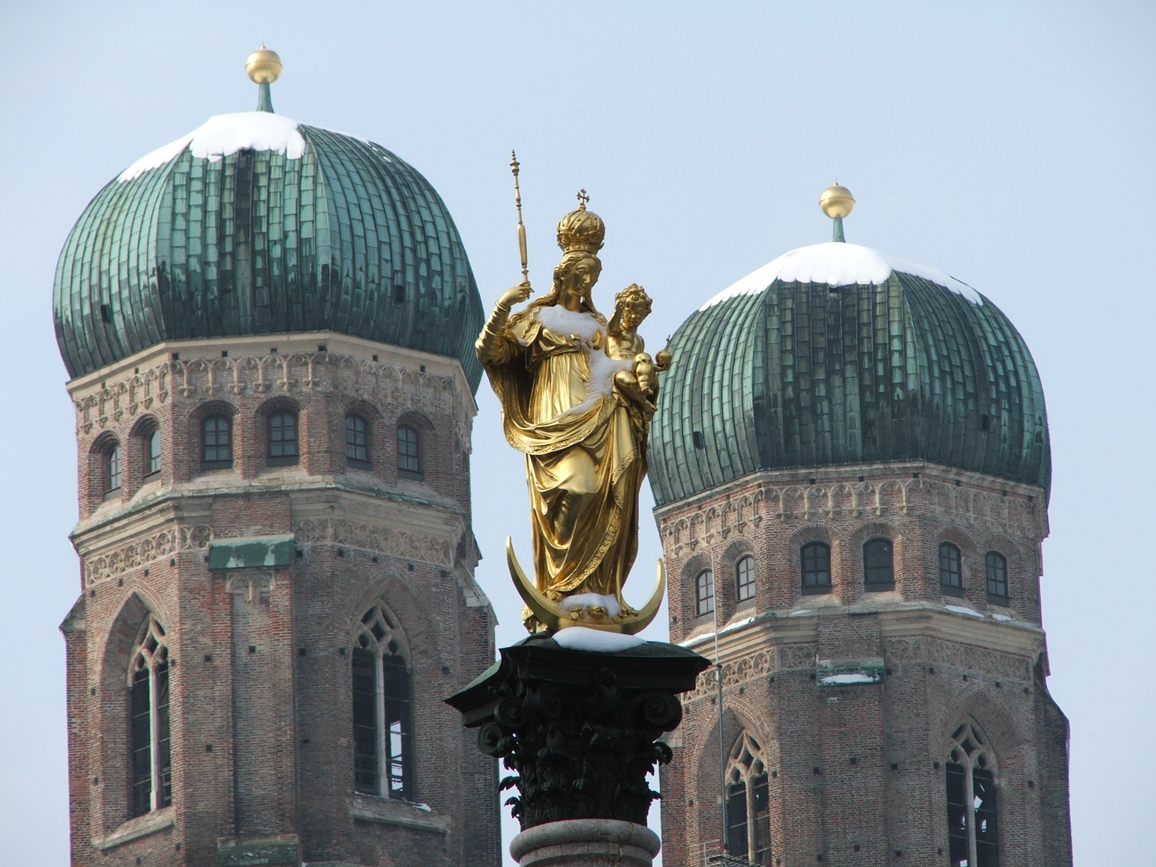 Mary (Maria) before her church; the Frauenkirche (Church of our Lady), partly covered in snow.Maria vor ihrer Kirche